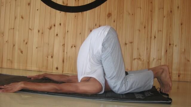 Karnapidasana